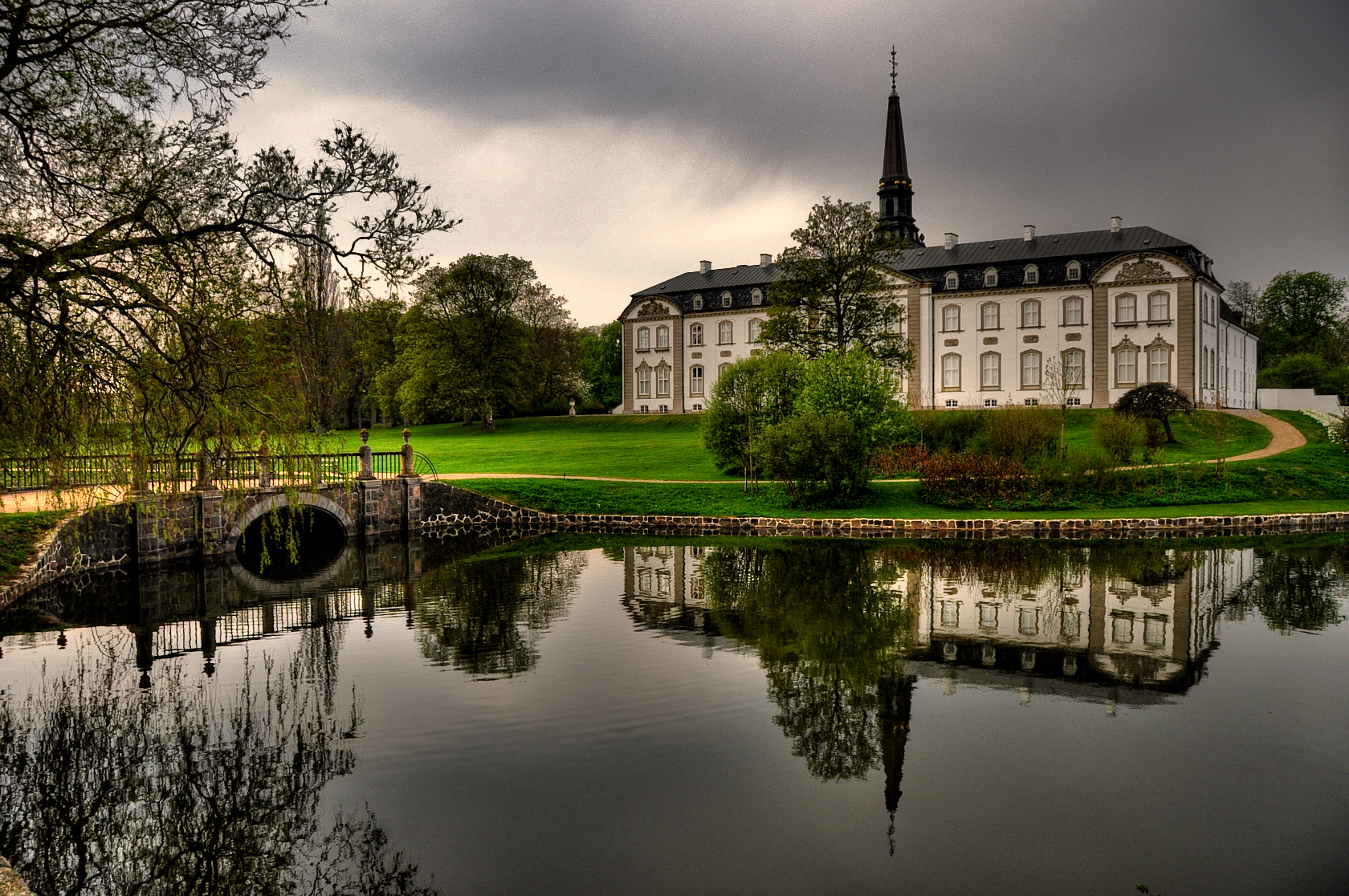 The main wing (east) of the Bregentved manor house in Denmark